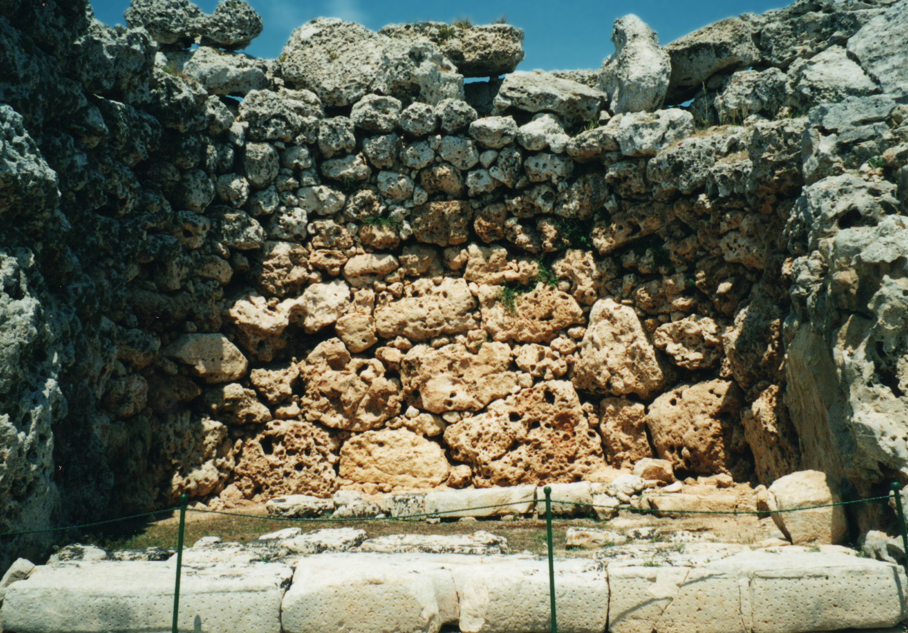 Ggantija. Corbelled wall and platform. The inward curvature of the wall can easily be seen here. Below the wall is a platform decorated with numerous small pits.